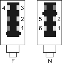 TAE from de wikipedia, by user dotob